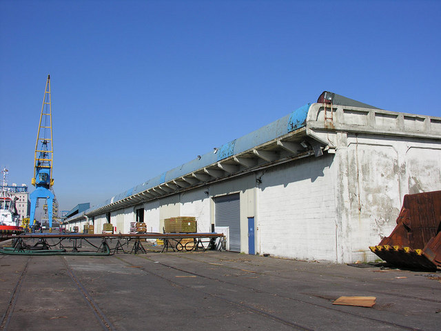 Old Transit Sheds, King George Dock These three single-storey sheds are the last surviving transit sheds from the time the dock opened in 1914, they were early examples of reinforced concrete construction. They are still used for storage but also support the pipeline terminal for vegetable oils (foreground) and the grain export conveyor (in the distance).